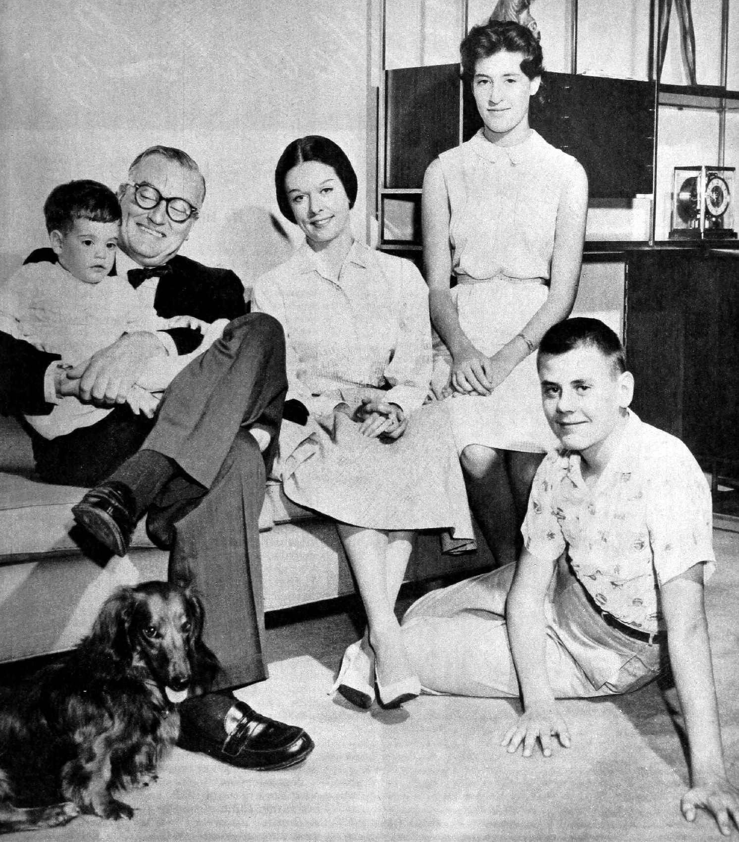 Photo of the Garroway family at home in 1960. From left-Dave holding David, Jr., wife Pamela, daughter Paris, and son Michael seated on the floor.